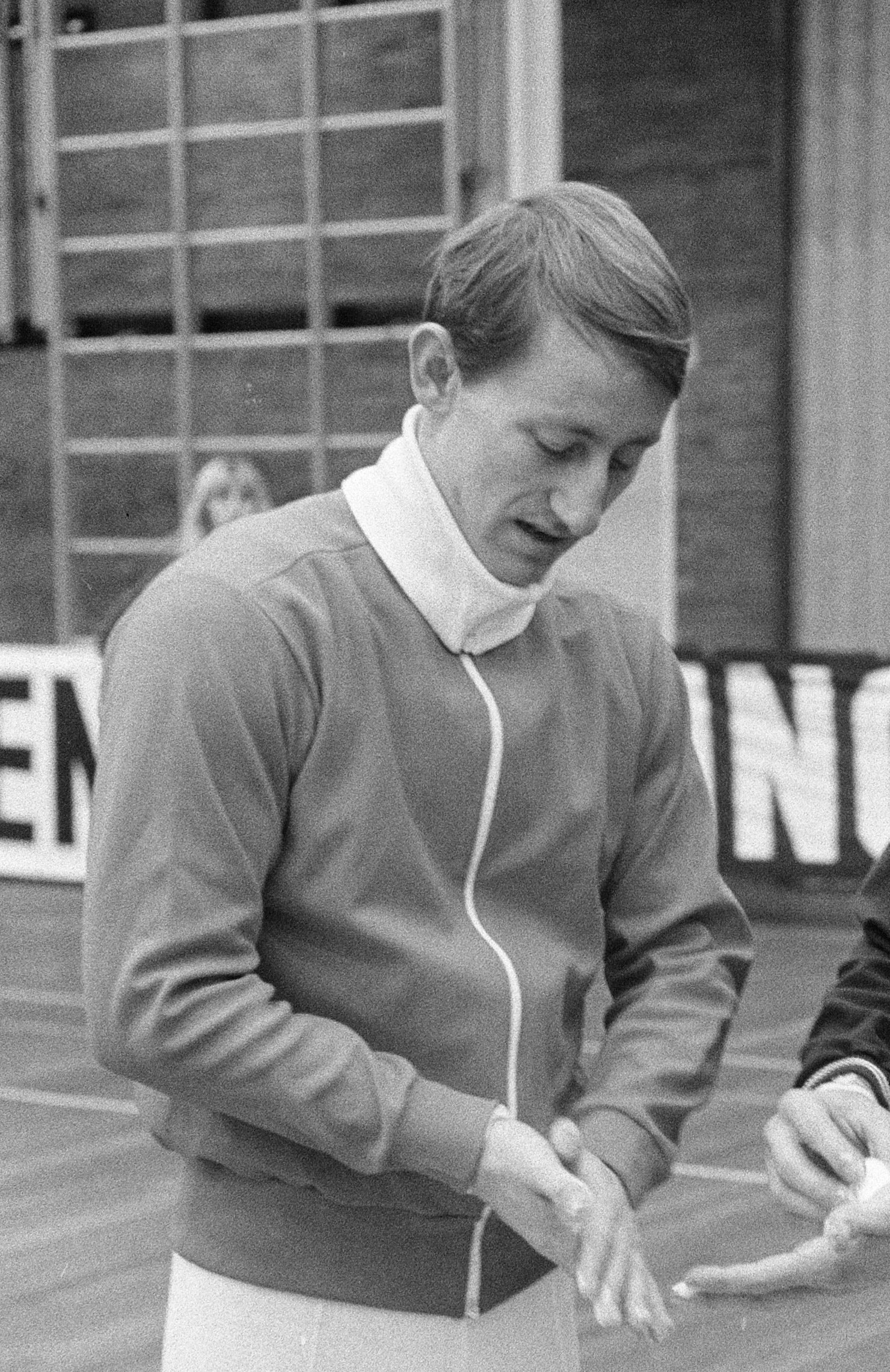 Nederland tegen Denemarken turnen te Zaandam. Nielsen